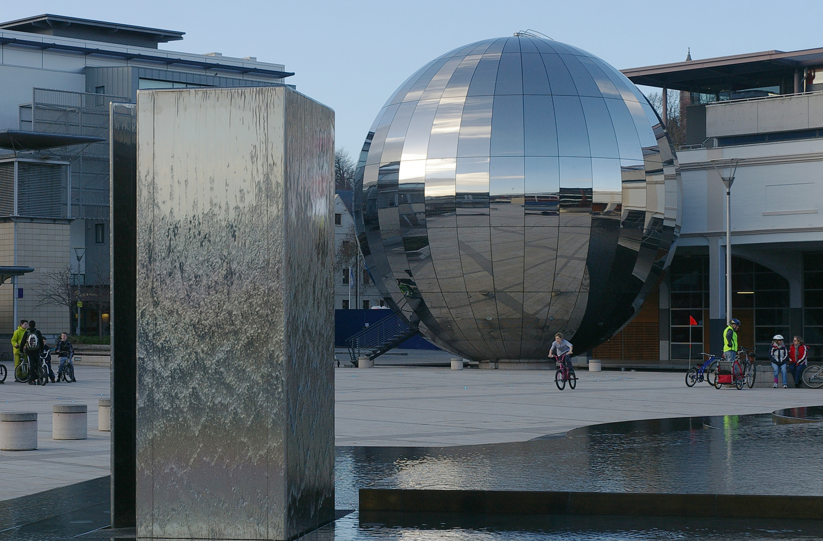 Fountains in Millennium Square, Bristol.